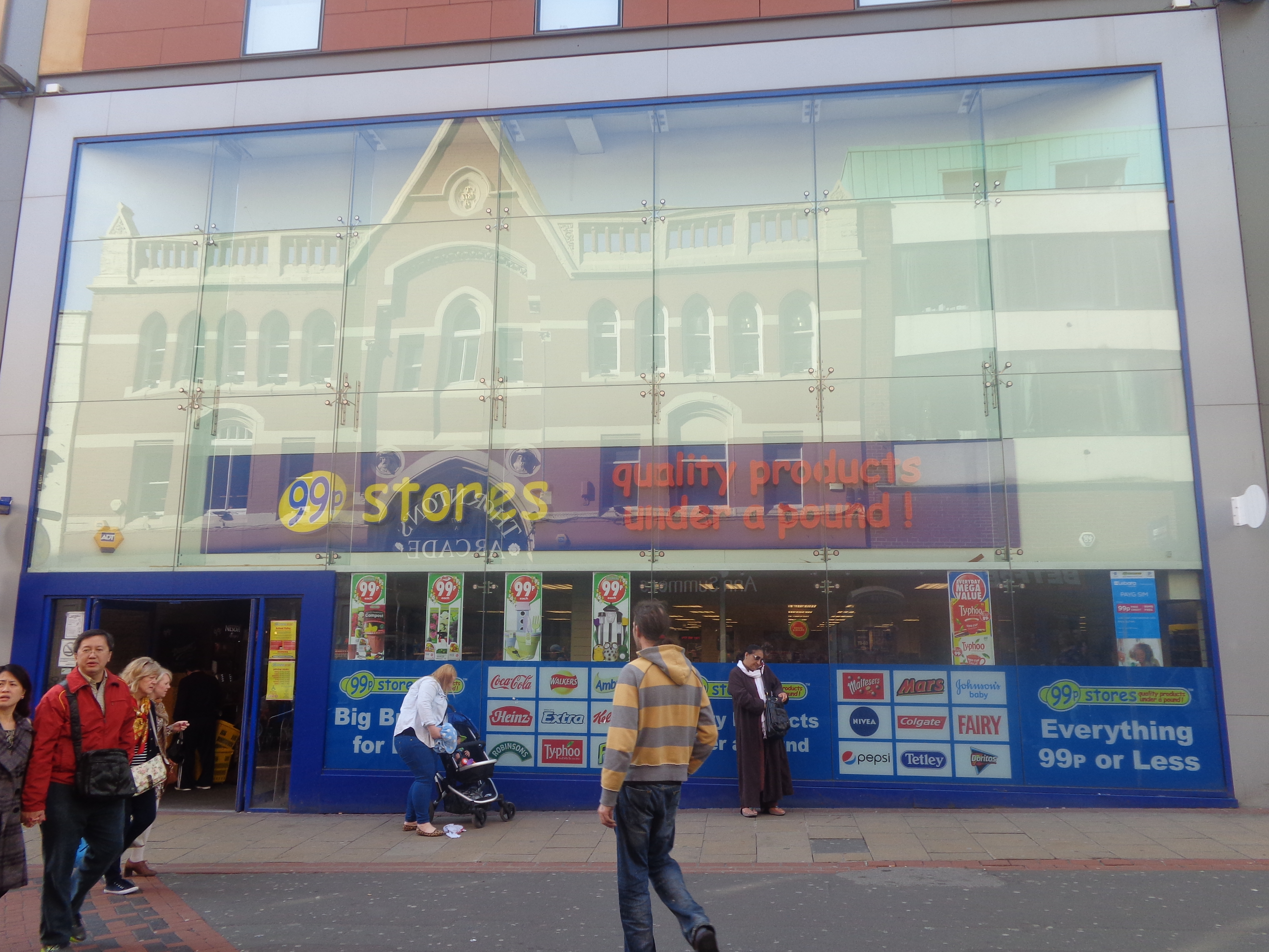 99p Stores, Lands Lane, Leeds, West Yorkshire. Taken on the afternoon of Easter Monday the 6th of April 2015.